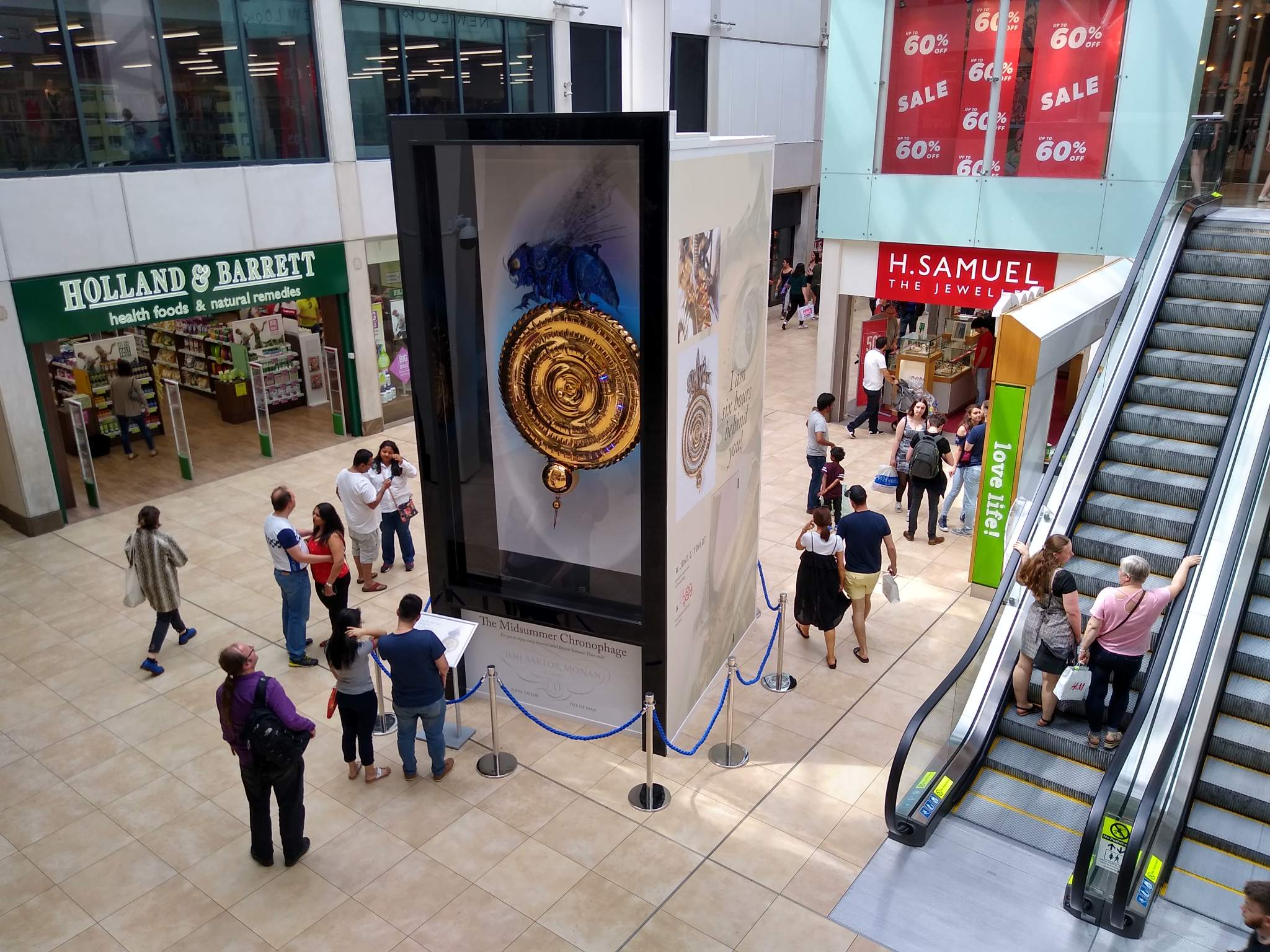 The Midsummer Chronophage clock displayed in the Lion Yard shopping centre in June 2019.